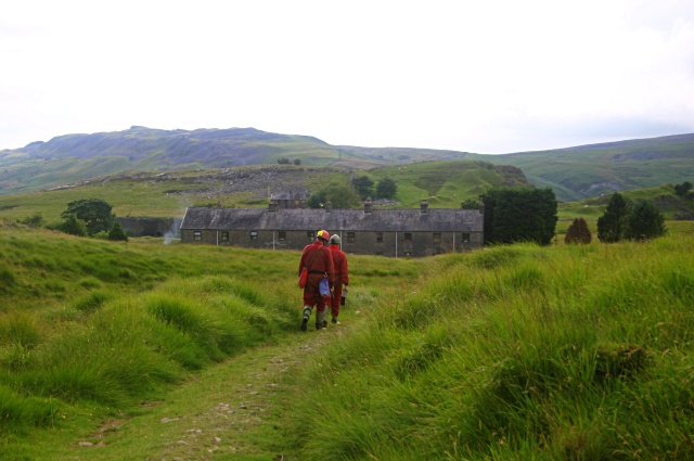 1-10 Powell Street, Penwyllt. These old quarrymen's cottages are now the headquarters of the South Wales Caving Club and West Brecon Cave Rescue Team, and returning cavers such as these are a common sight.